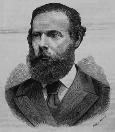 Portrait of Nándor Zichy